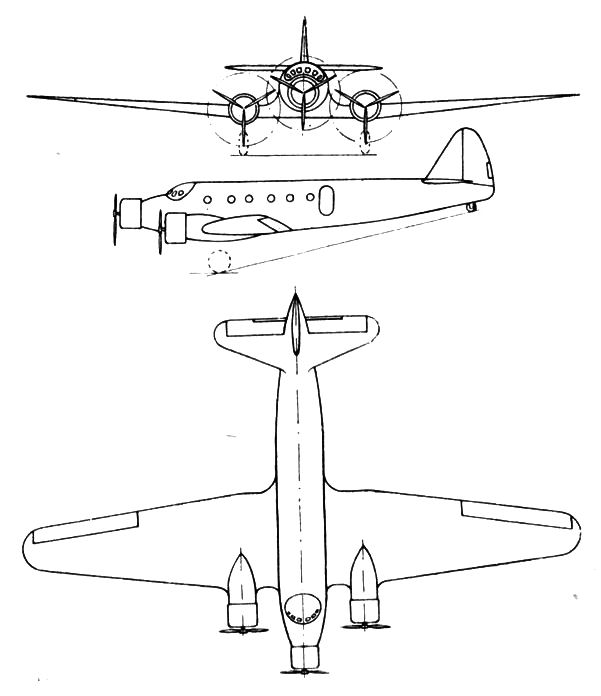 Renard R.35 3-view drawing from L'Aerophile June 1937